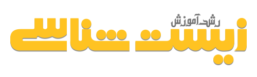 لوگوی مجله تخصصی رشد آموزش زیست شناسی